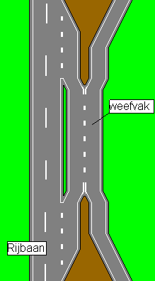 Motorway combined merge / exit lane.